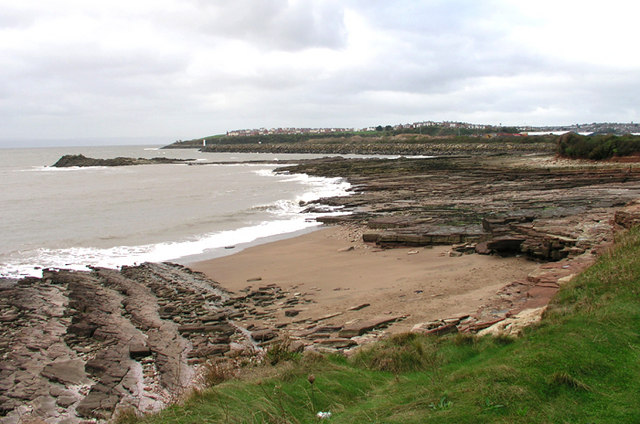 Bendrick Rock, Barry. The just visible lighthouse stands at the entrance channel to Barry Docks with Barry Island beyond.